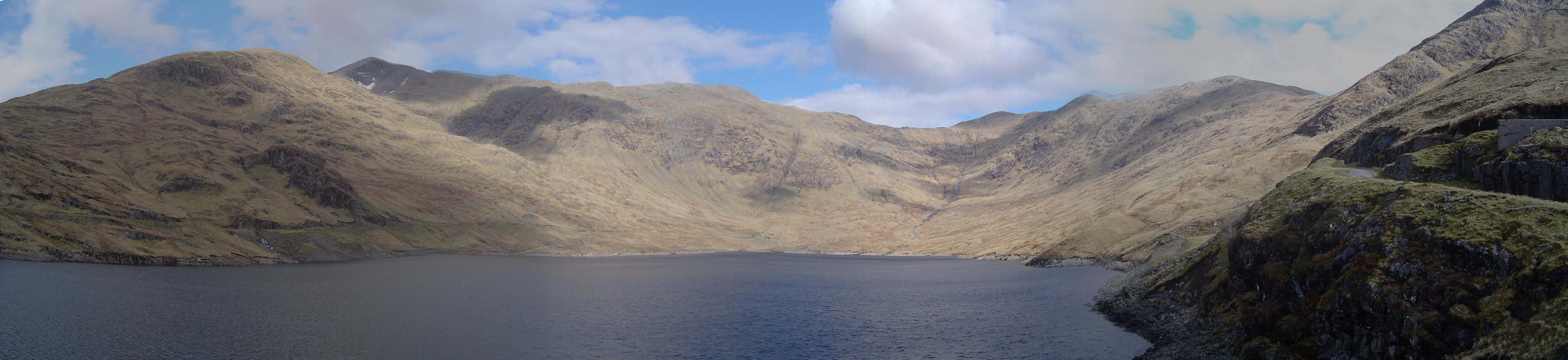 The Ben Cruachan Horseshoe around Cruachan Reservoir in Scotland. Author: Niall MacBride